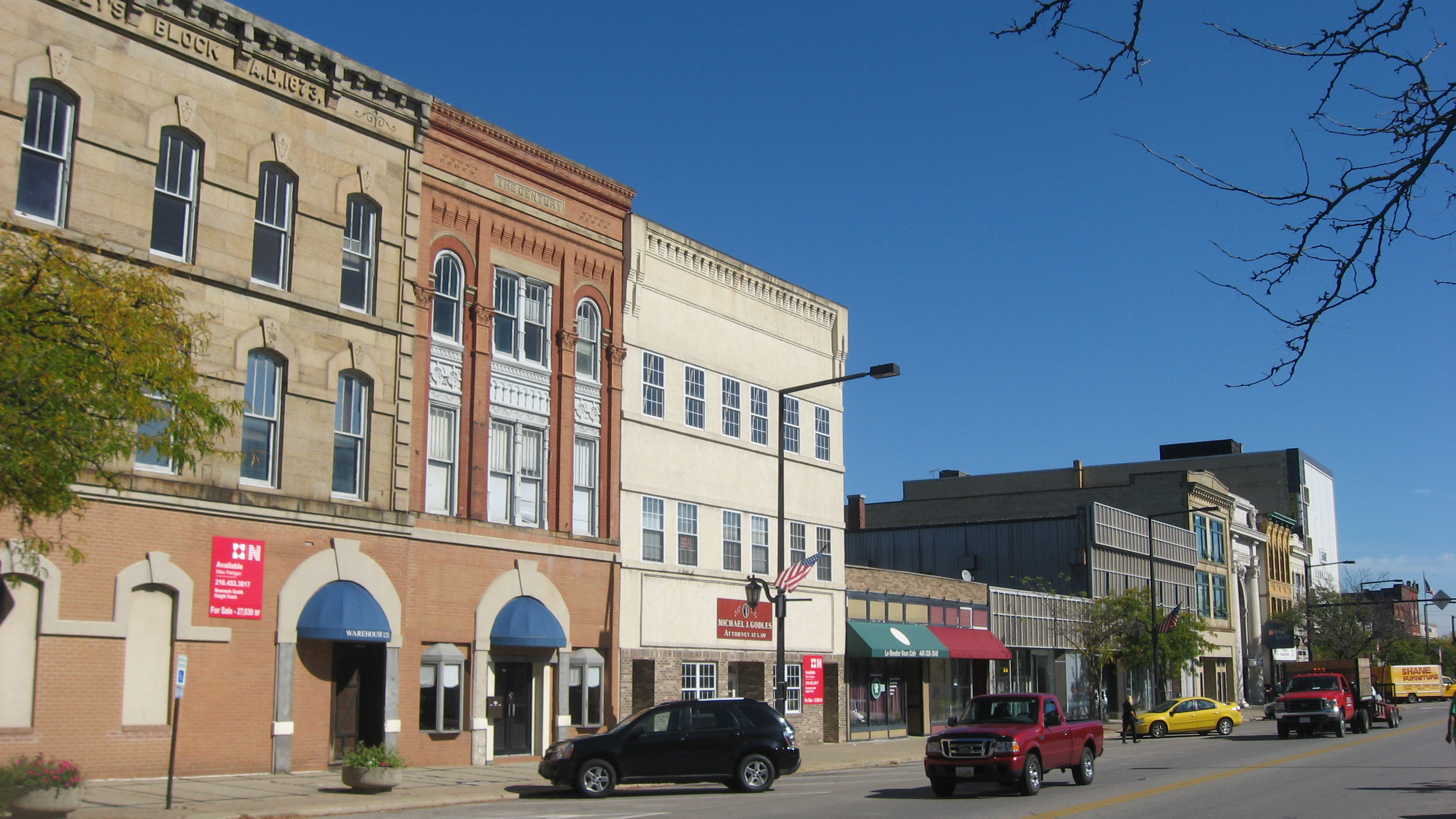 Buildings on the northern side of Broad Street between the East and Middle Avenue junctions in downtown Elyria, Ohio, United States. This block is part of the Elyria Downtown-West Avenue Historic District, a historic district that is listed on the National Register of Historic Places.